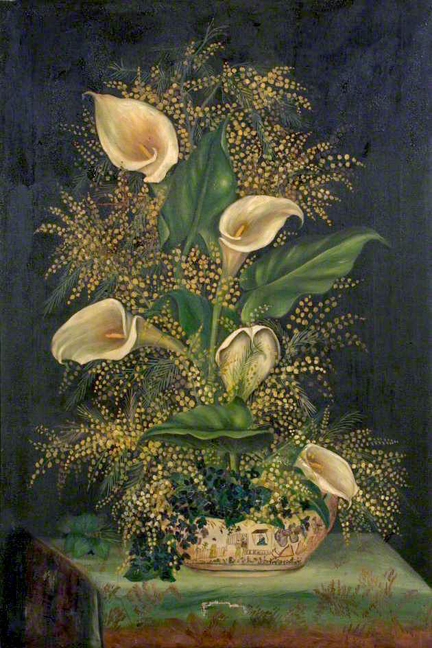 Vase of Lilies Wandsworth Museum (United Kingdom - London) Dates: Date unknown Dimensions: Height: 90.4 cm (35.59 in.), Width: 60 cm (23.62 in.) Medium: Painting - oil on canvas